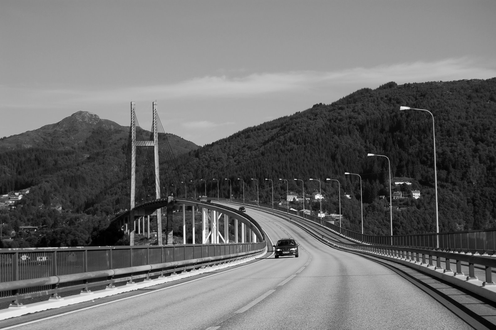 July 5th 147